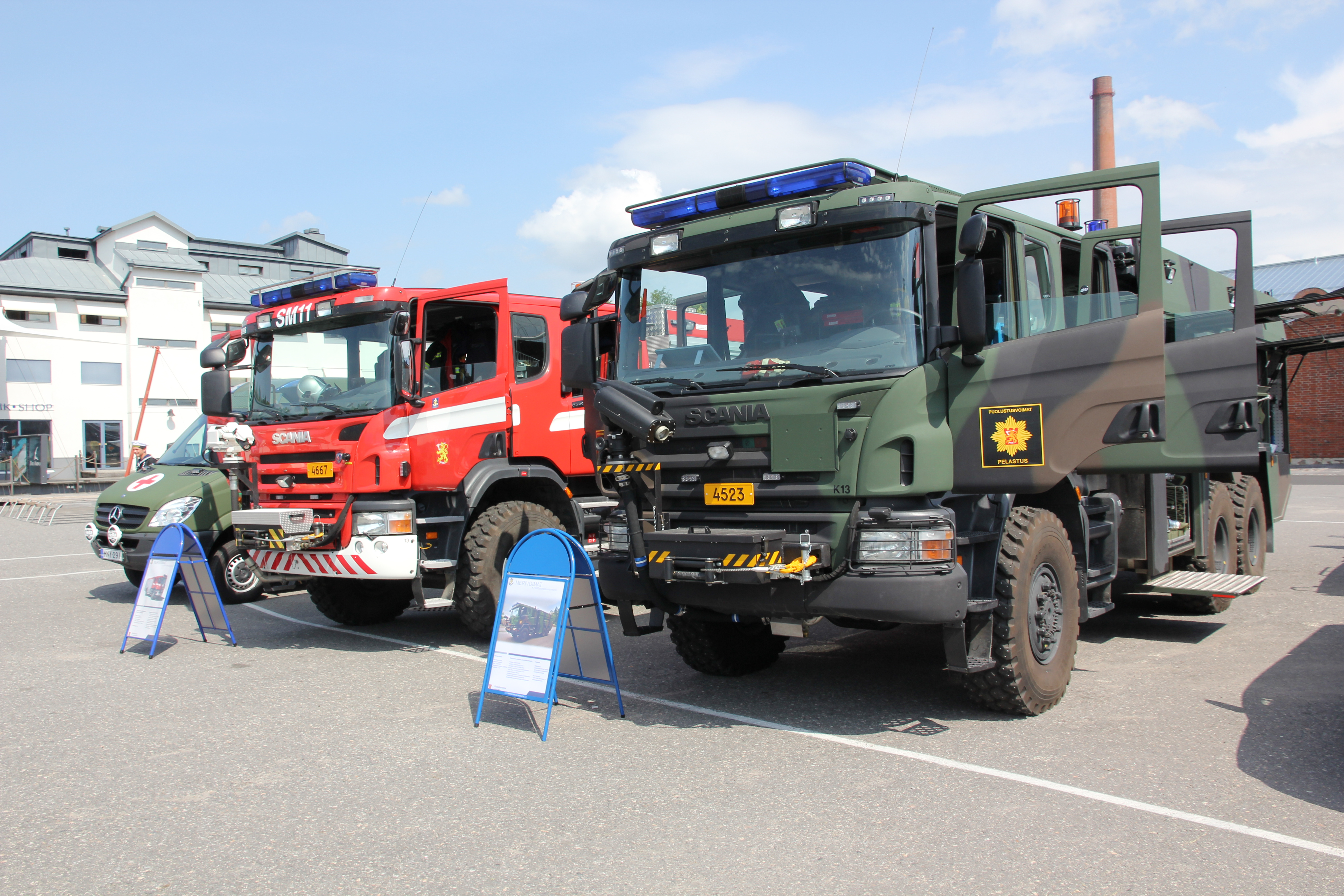 Pujo puhdistusajoneuvo chemical warfare decontamination vehicle and SM11 fire engine used by Finnish military. Pujo is based on Scania Saurus 6x6 fire engine with 279 kW engine and weight of 23930 kg. Equipped with Esteri D-240 pump and Rosenbauer R15E water cannon with tank capacity of 4800 liters, hydraulic winch Warn 12 (capacity 5.4 metric tons) and ordinary fire engine equipment. Additional equipment include high pressure pumps and cleaners, emulsion tank and a decontamination tent with shower. Primary function as a decontamination vehicle, but can be used as an ordinary fire engine in peace time. SM11 is a Scania P380 CB 4x4 Saurus 28 fire engine, 279 kW engine, weight 17280 kg. Esteri D-240 pump, Rosenbauer R8E water cannon (1000 l/min/10 bar) with 2800 liter tank capacity. 15 KVA emergency generator, water rescue equipment and Warn 12 hydraulic winch with 5.4 metric ton capacity.